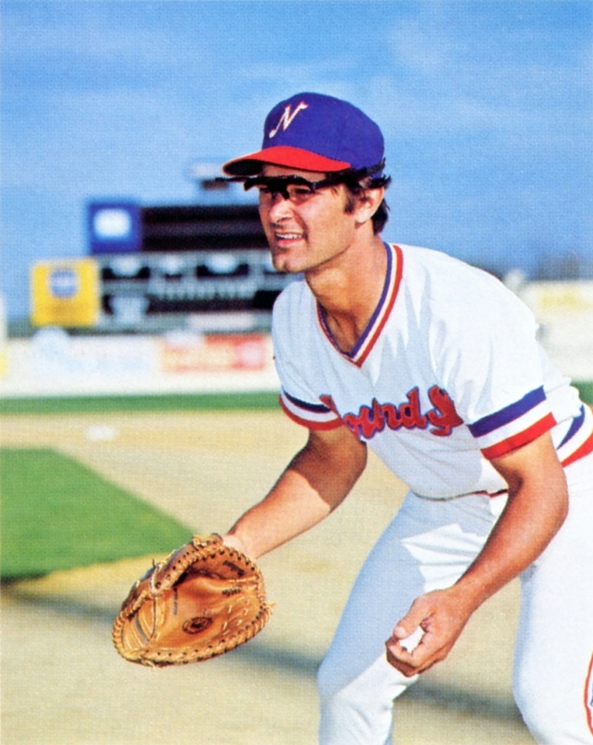 First baseman Don Mattingly of the 1981 Nashville Sounds Minor League Baseball team of the Southern League